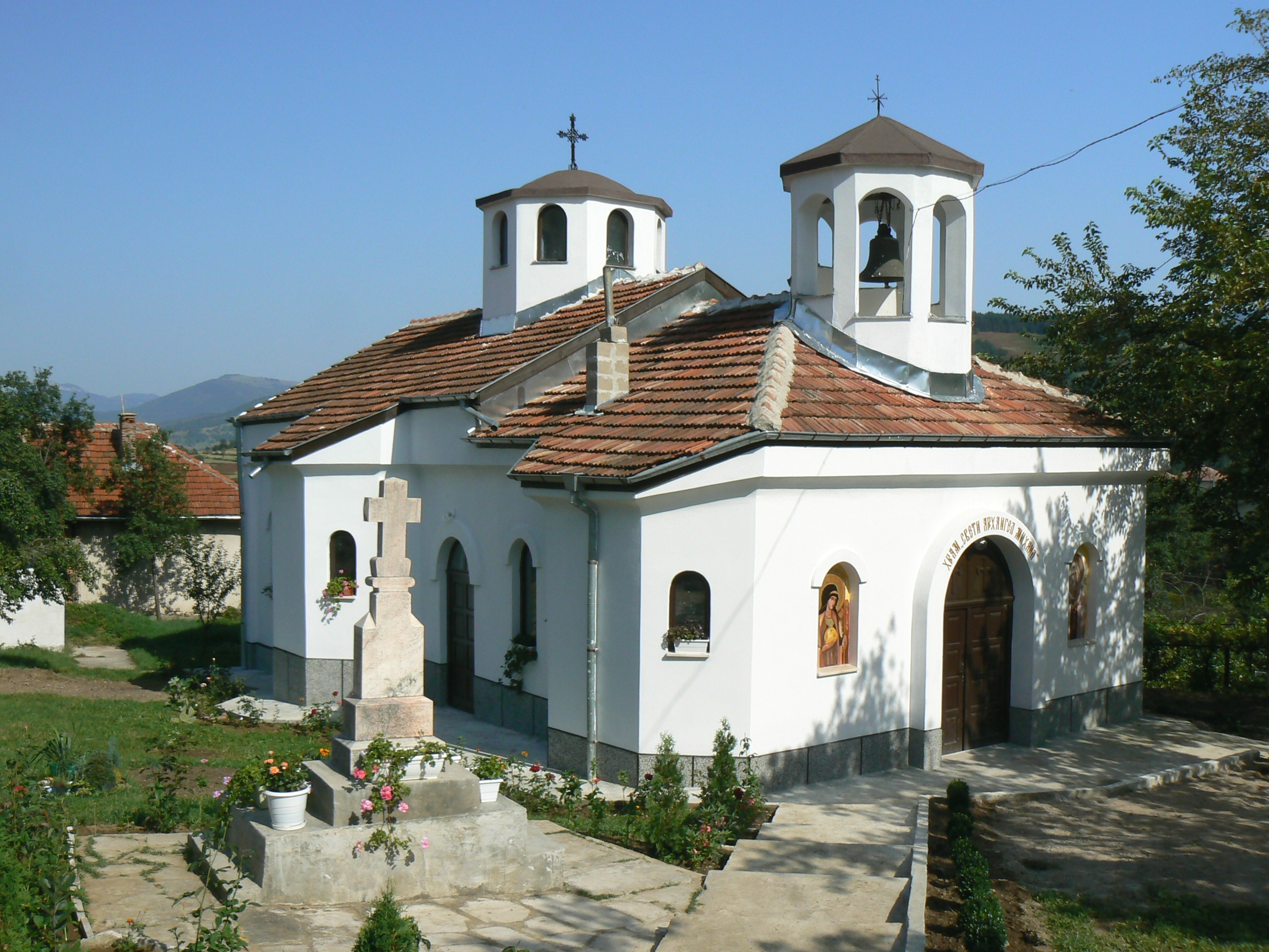 The church of village Spanchevtsi, Bulgaria